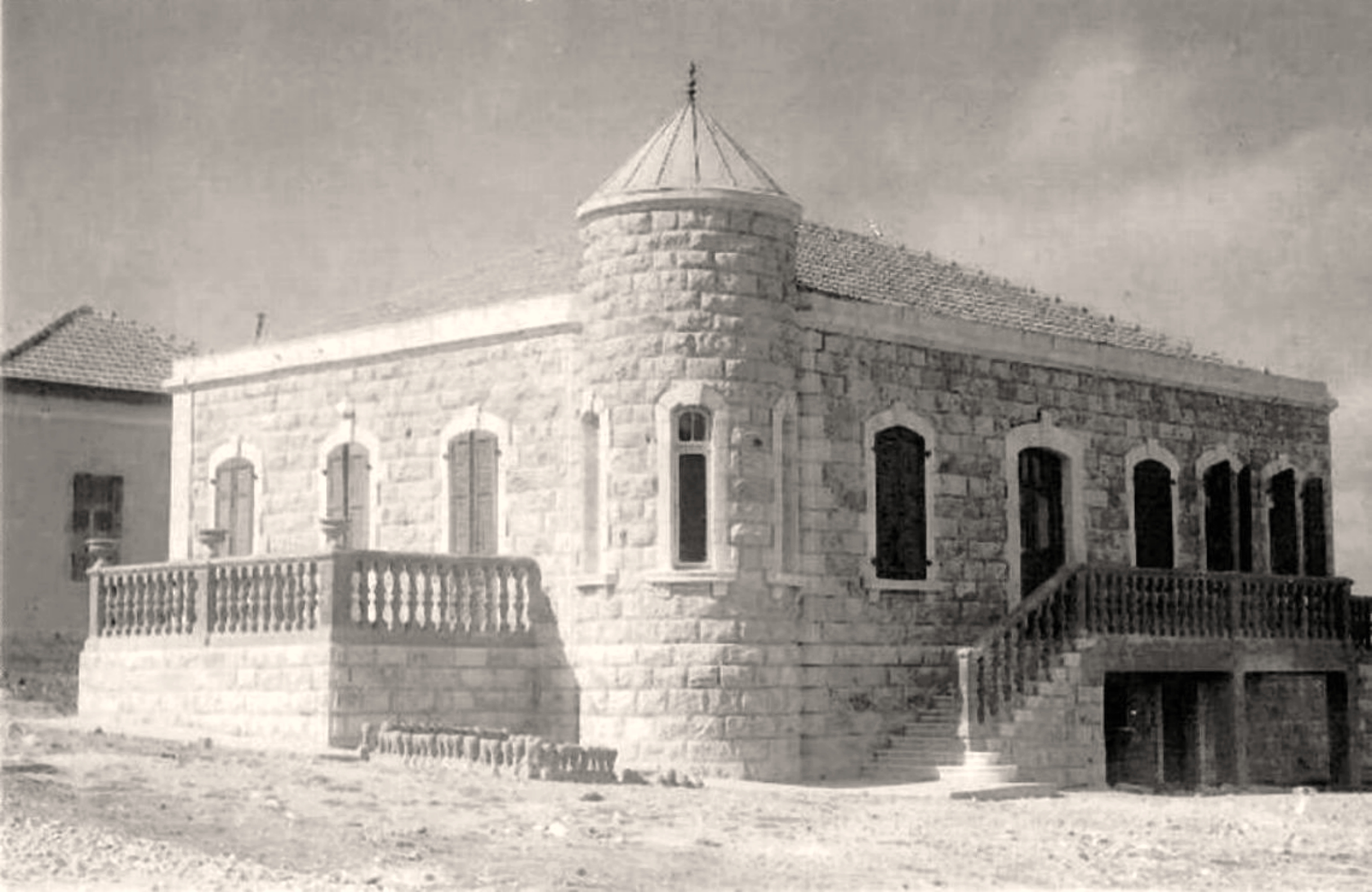 Houses in Talpiot neighborhood, Jerusalem.